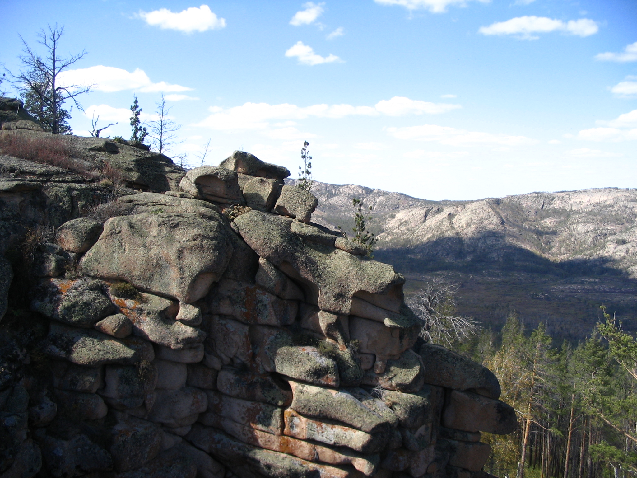 Reserve Karkaralinsky in Qaraghandy Province